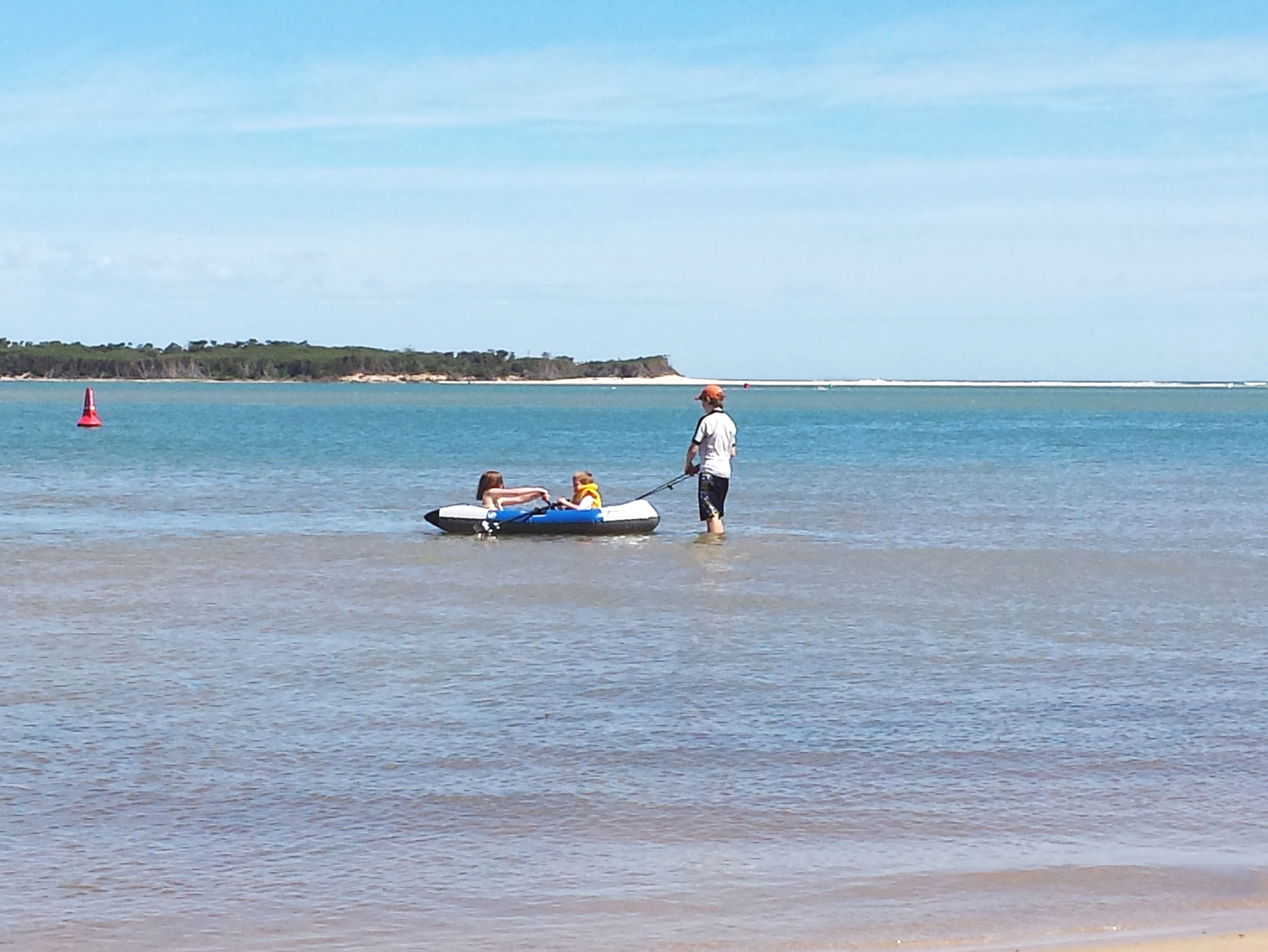 Children playing at Anderson Inlet, Inverloch, Victoria, Australia